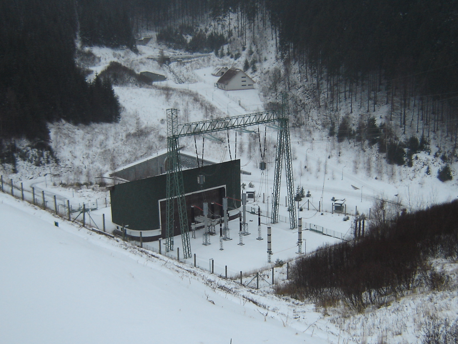 Dlouhé Stráně, ingoing/outgoing feeder from above: Krasíkov–Dlouhé Stráně 400 kV power line (V457) and substation